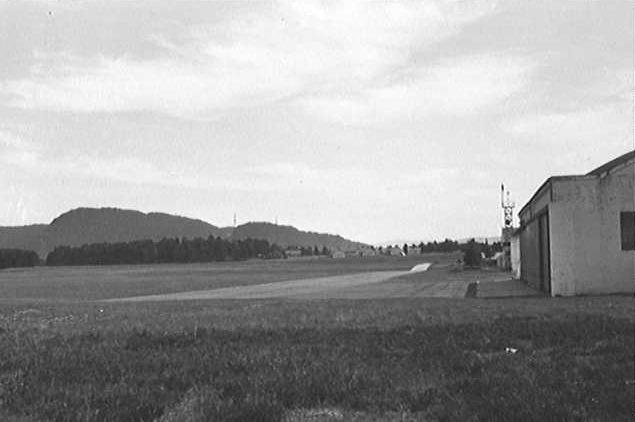 Værnes airbase and military camp near Trondheim in Norway.